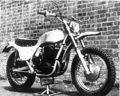 Picture of Yankee Prototype motorcyle